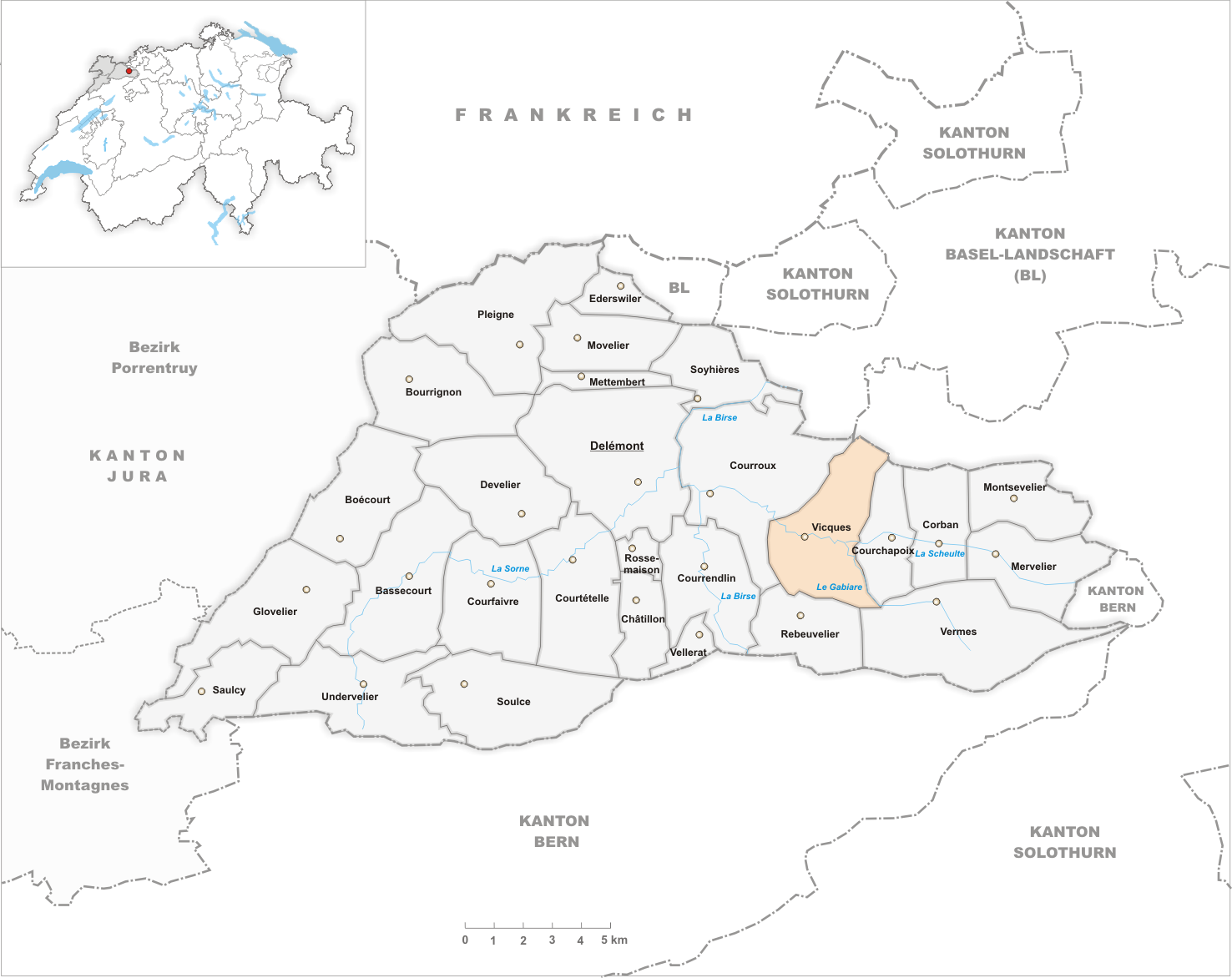 Municipality Vicques